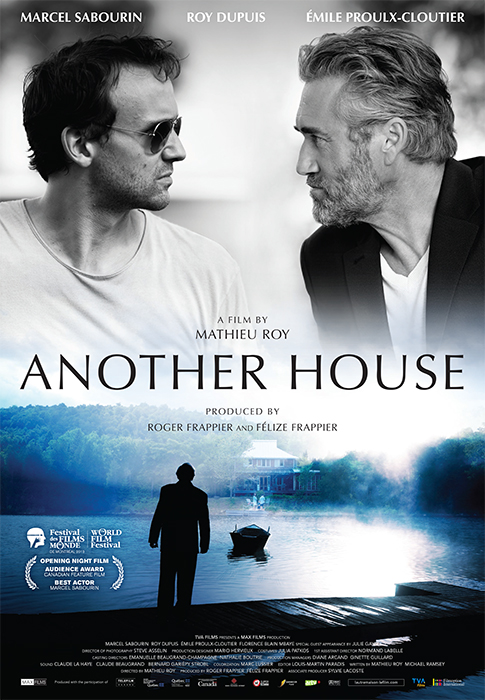 Poster of the movie Another House (Q48671478)